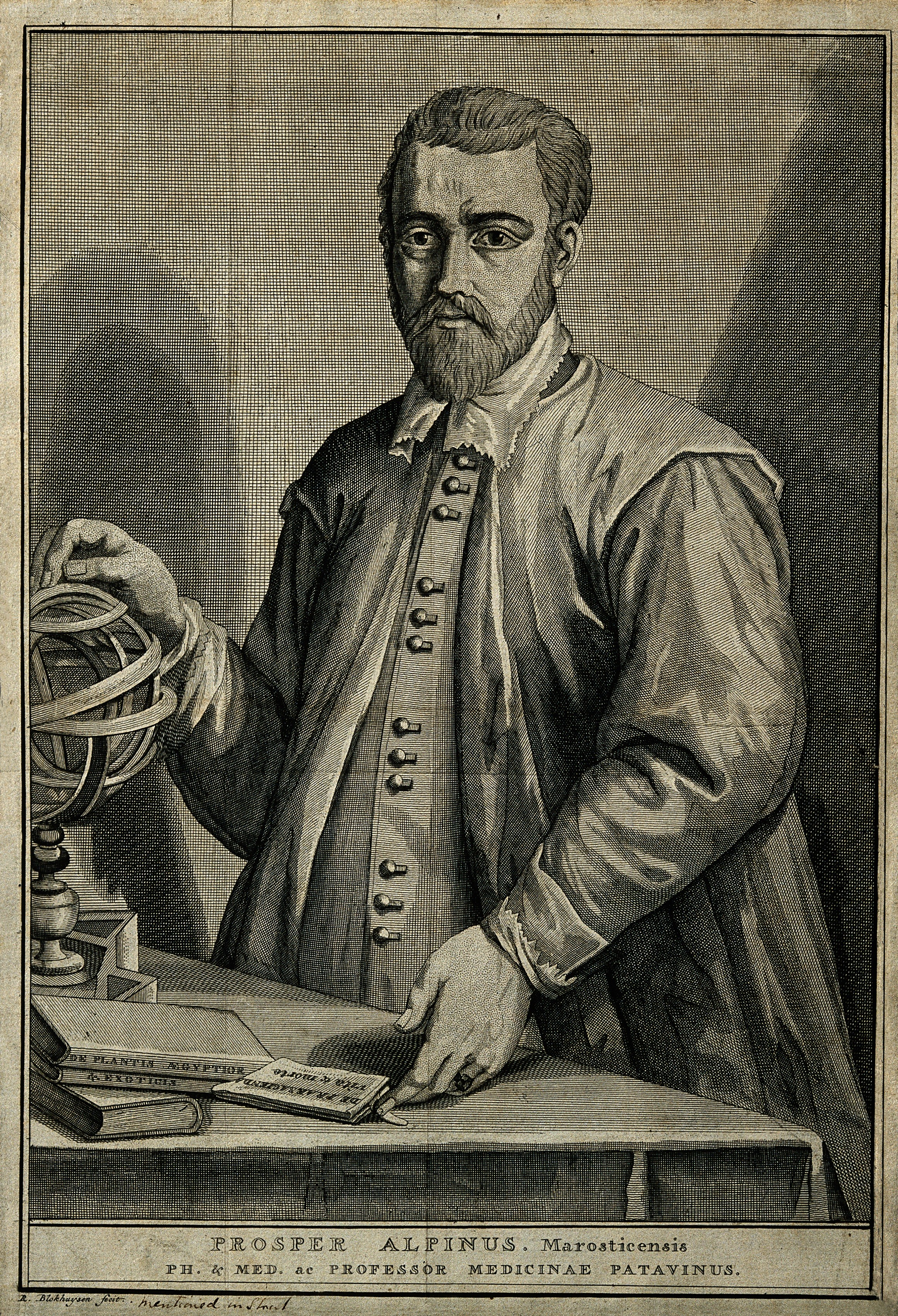 Prospero Alpino. Engraving by R. Blokhuysen. Iconographic Collections Keywords: intaglio prints; portrait prints; alpinus, prosper, 1553-1617; Prosper Alpinus